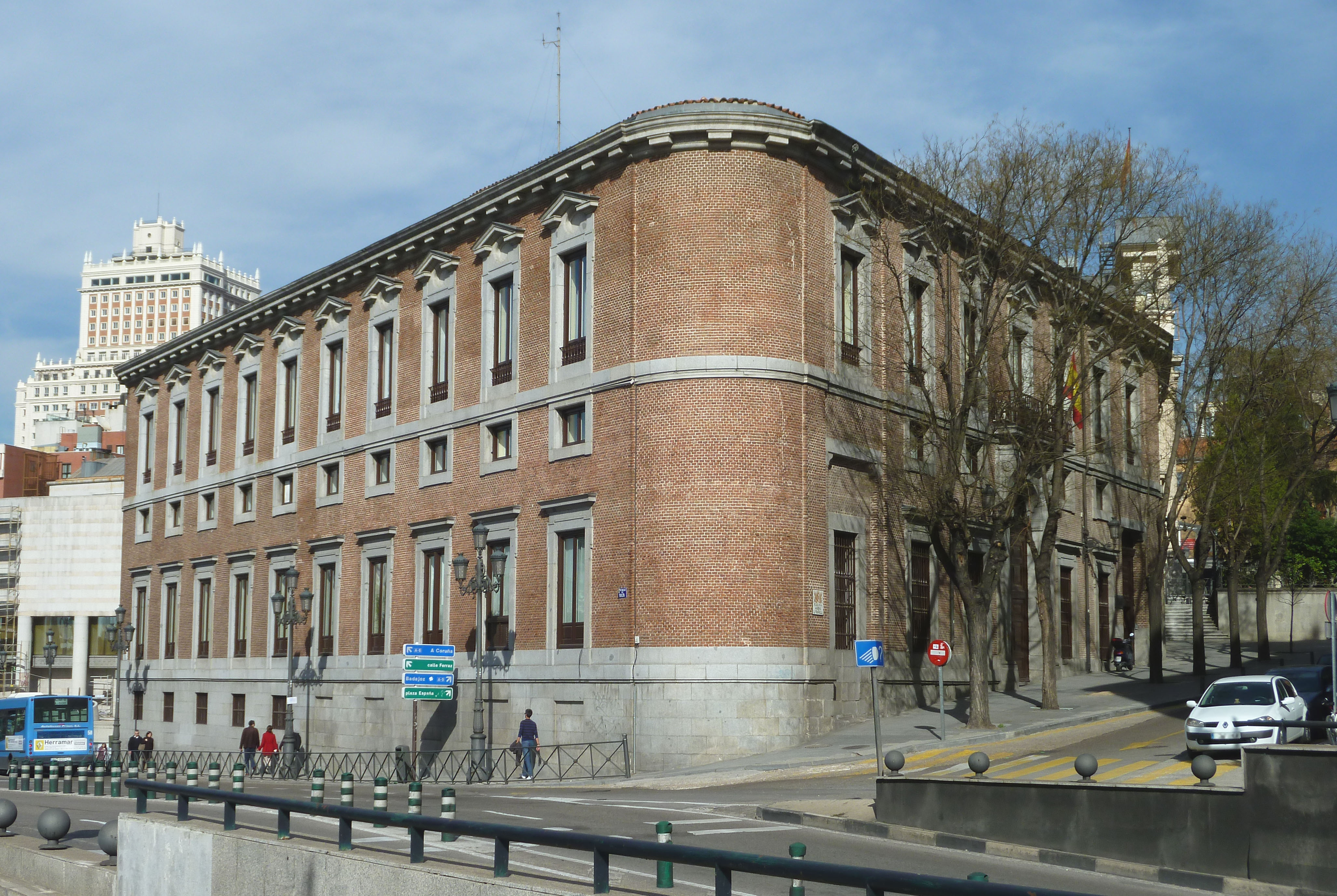 Façade of the Palace of the Marquis of Grimaldi in Madrid (Spain), at 5th Calle de Bailén (street) in Centro district. Projected in 1776 by Francesco Sabatini and finished in 1782.